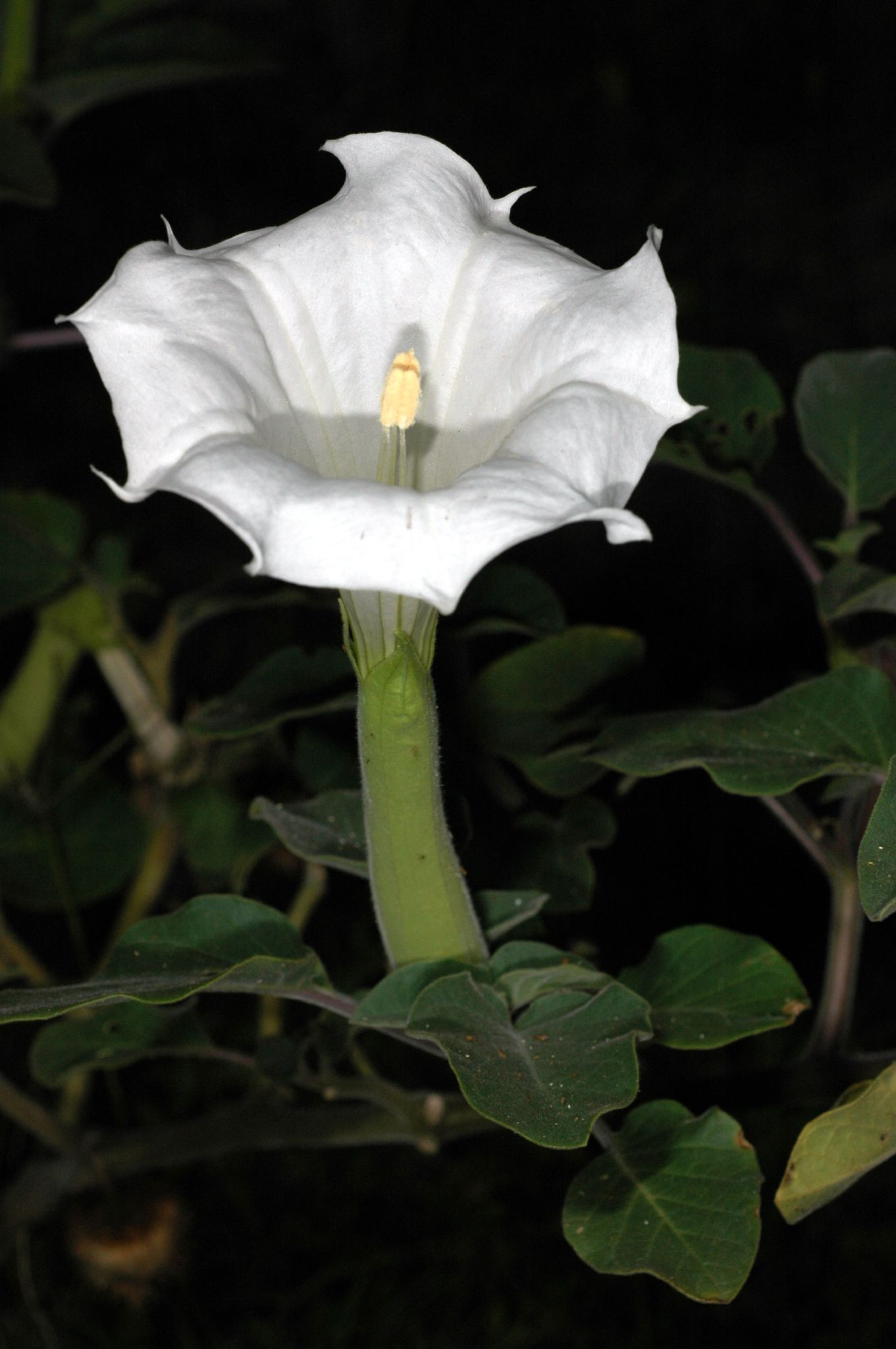 Downy Thorn Apple (Datura inoxia) flower